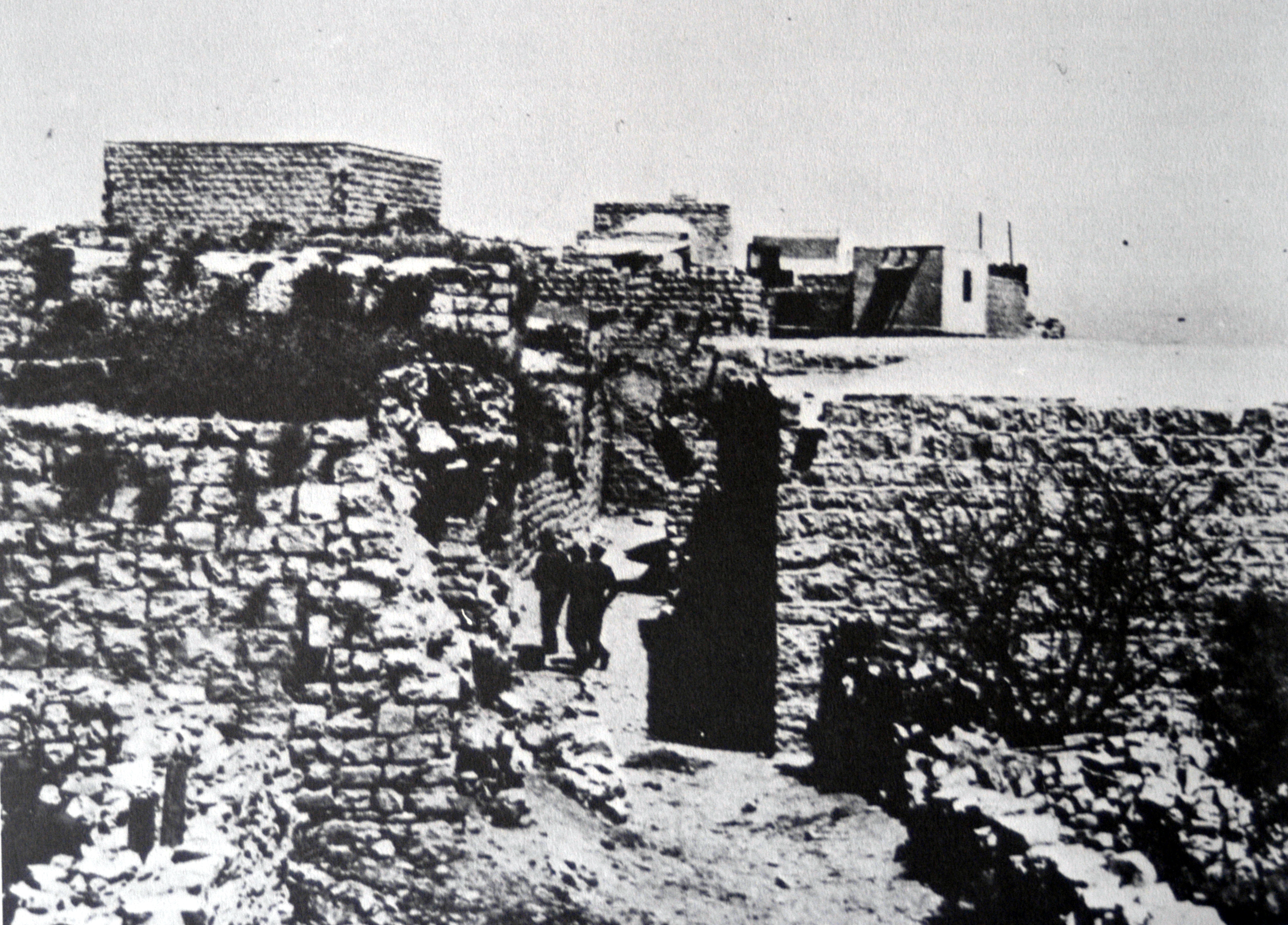 Deir Yassin. Attacked by Irgun 9th April 1948.